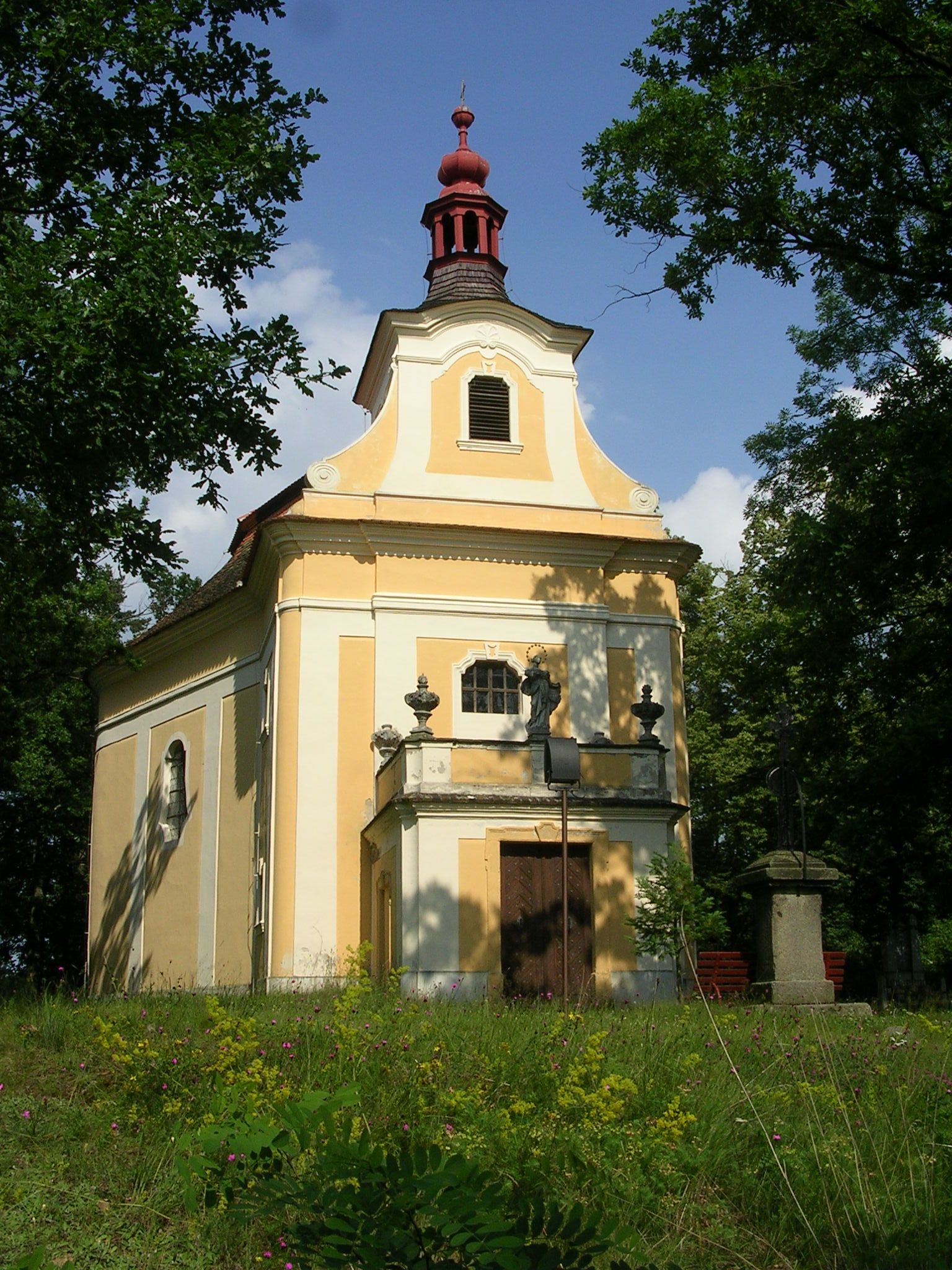 Svatý Jan, Příbram District, Central Bohemian Region, the Czech Republic. A church of Saint John of Nepomuk.